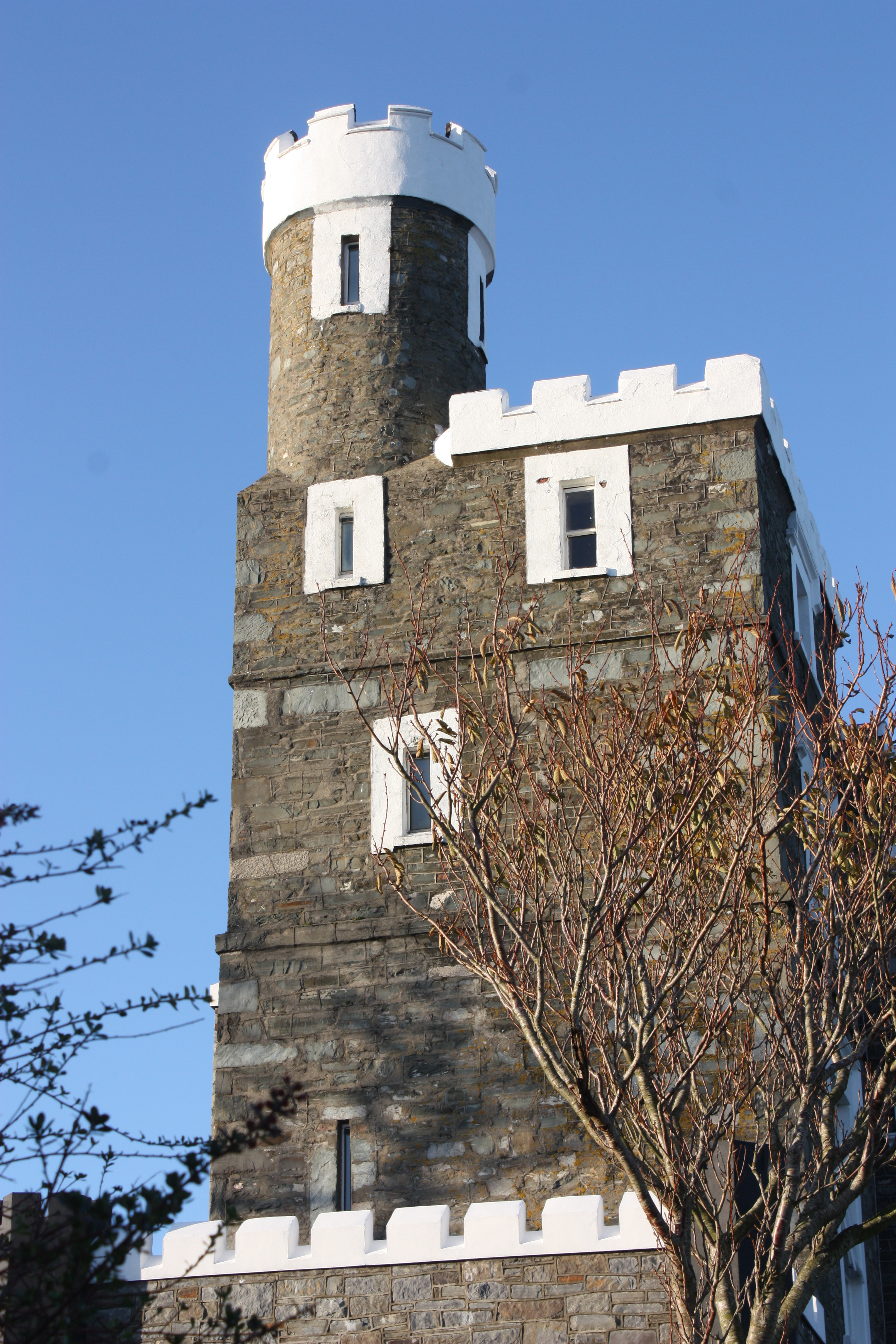 Kings Castle Nursing Home, Kildare Street, Ardglass, County Down, Northern Ireland, November 2010